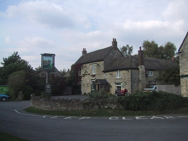 The Boat Inn at Thrupp.